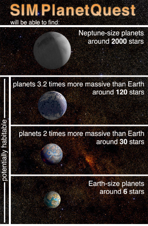 Chart depicting the planetary discovery potential of SIM PlanetQuest.